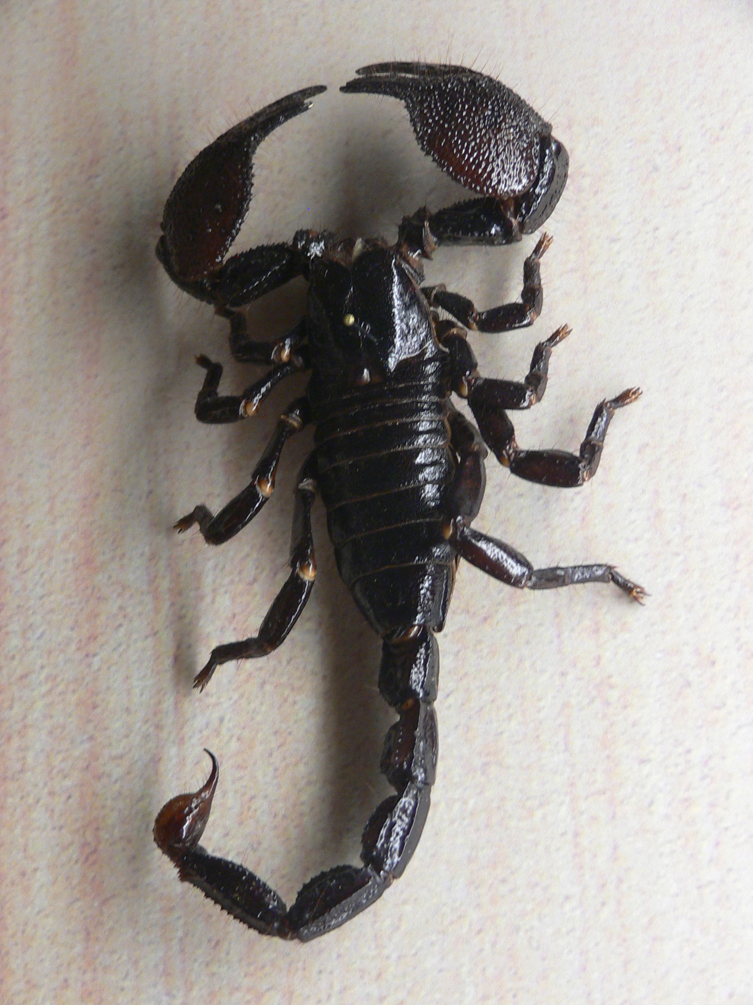 Pictures taken by myself at the Audubon Insectarium